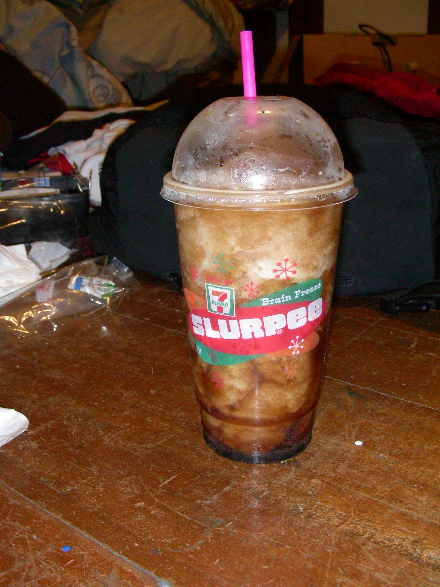 Slurpee in Taiwan 7-11; mixed with a bottle of hot sauce (Credible Source: CRACKED- "The Onion's bigger, badder, sexier, more sociopathic-inclined, nicer car; complete with an amazing head of hair- beautifully topped off with a mustache that women want to touch and men want to...well, also touch" 's older brother).